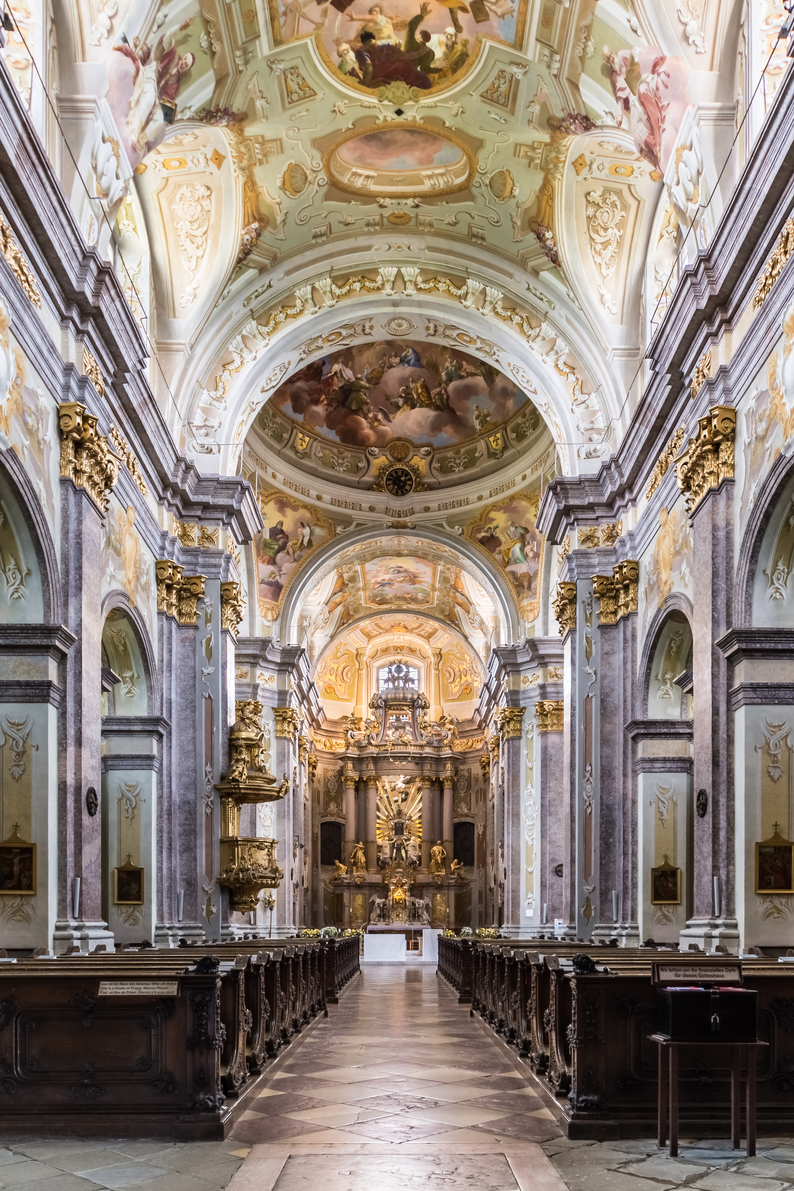 Interior of Sonntagberg Basilica, Lower Austria